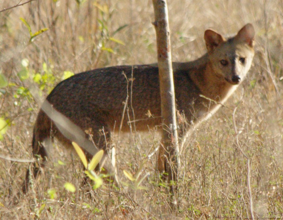 Crab-eating Fox (Cerdocyon thous) from the Pantanal, Mato Grosso near Pousada Rio Claro